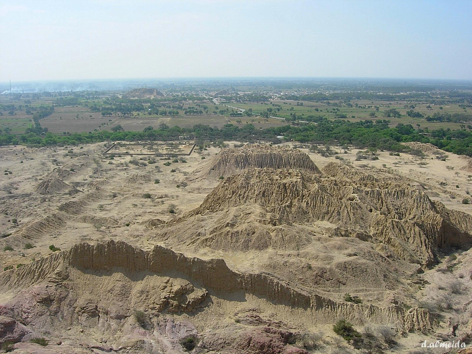 The Valleys of Túcume or the Túcume mounds is one of the most important archaeological sites of Peru. Located near the city of Chiclayo, it is composed of a complex of 26 pyramids covering an area of around 220 hectares from the Lambayeque (Sican), Chimú and Inca cultures. Túcume dates from the 11th to 15th century AD.